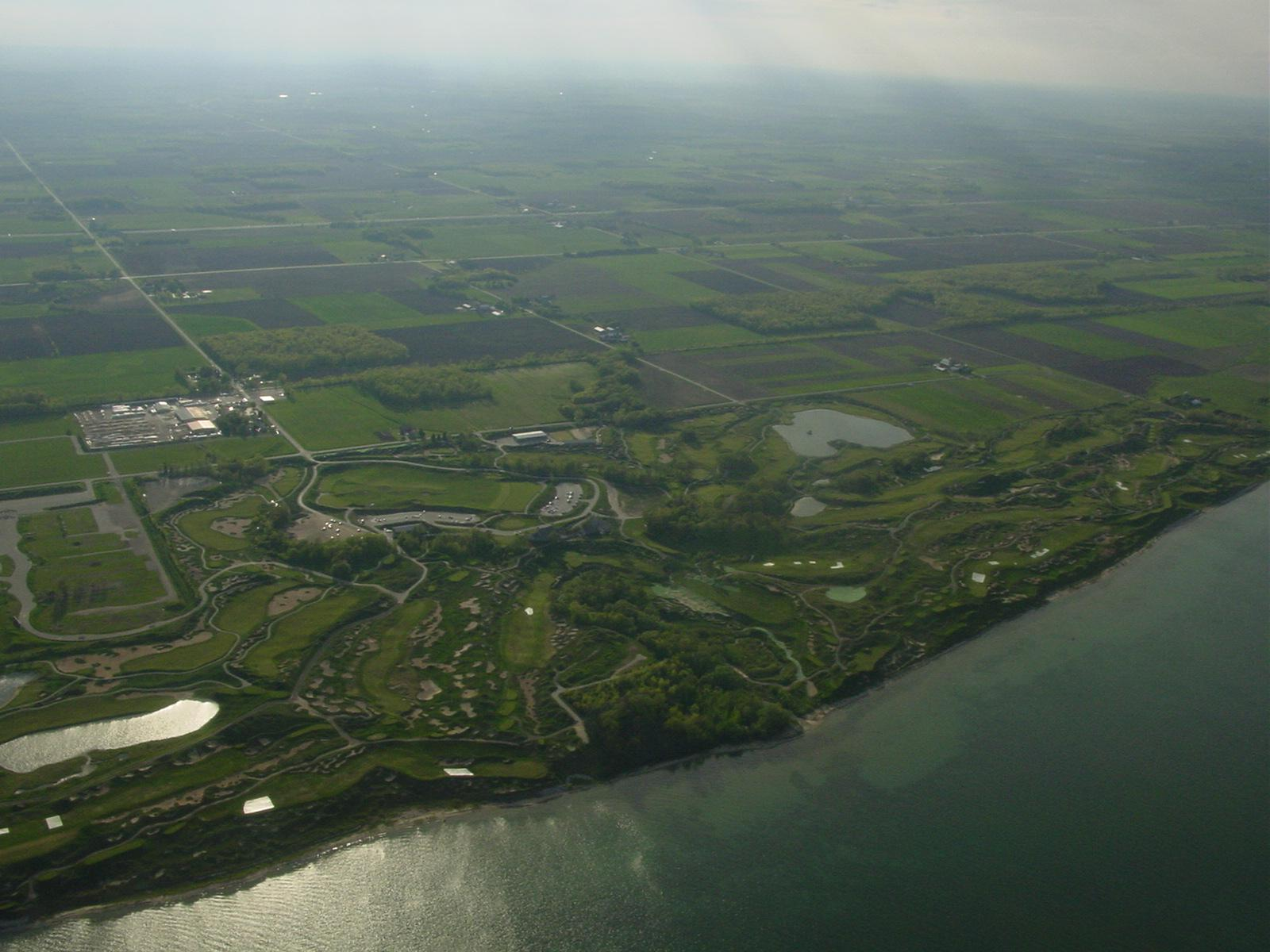 Photo taken from air on 6/1/2005